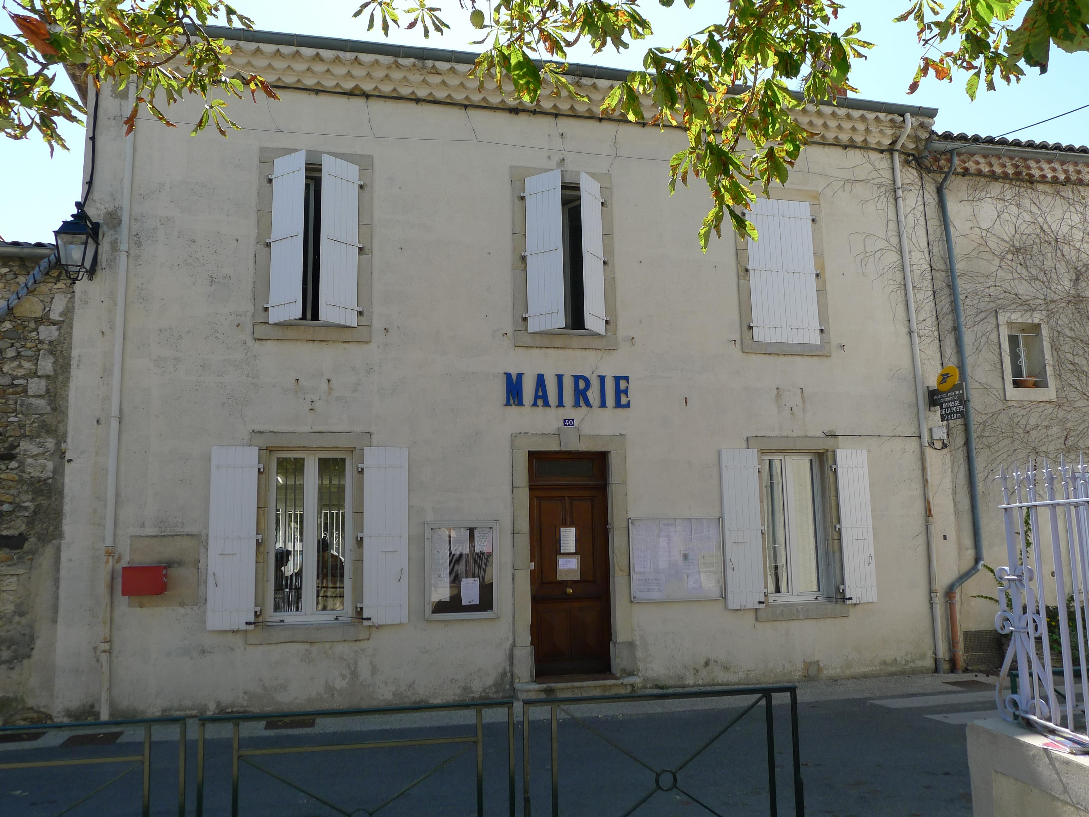 Town hall of Ancône - Drôme - France